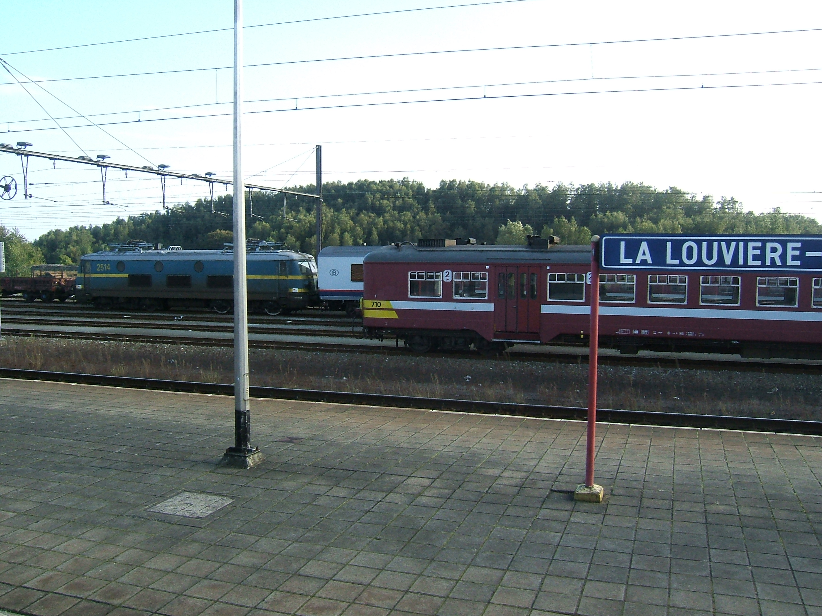 With non-renovated EMU and class 25 loco at Louvière Sud railway station, Belgium